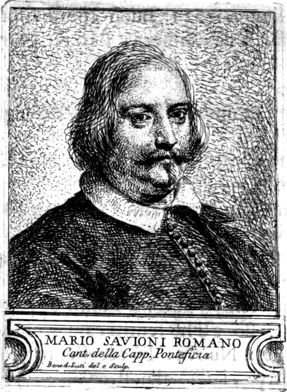 Depicted person: Mario Savioni